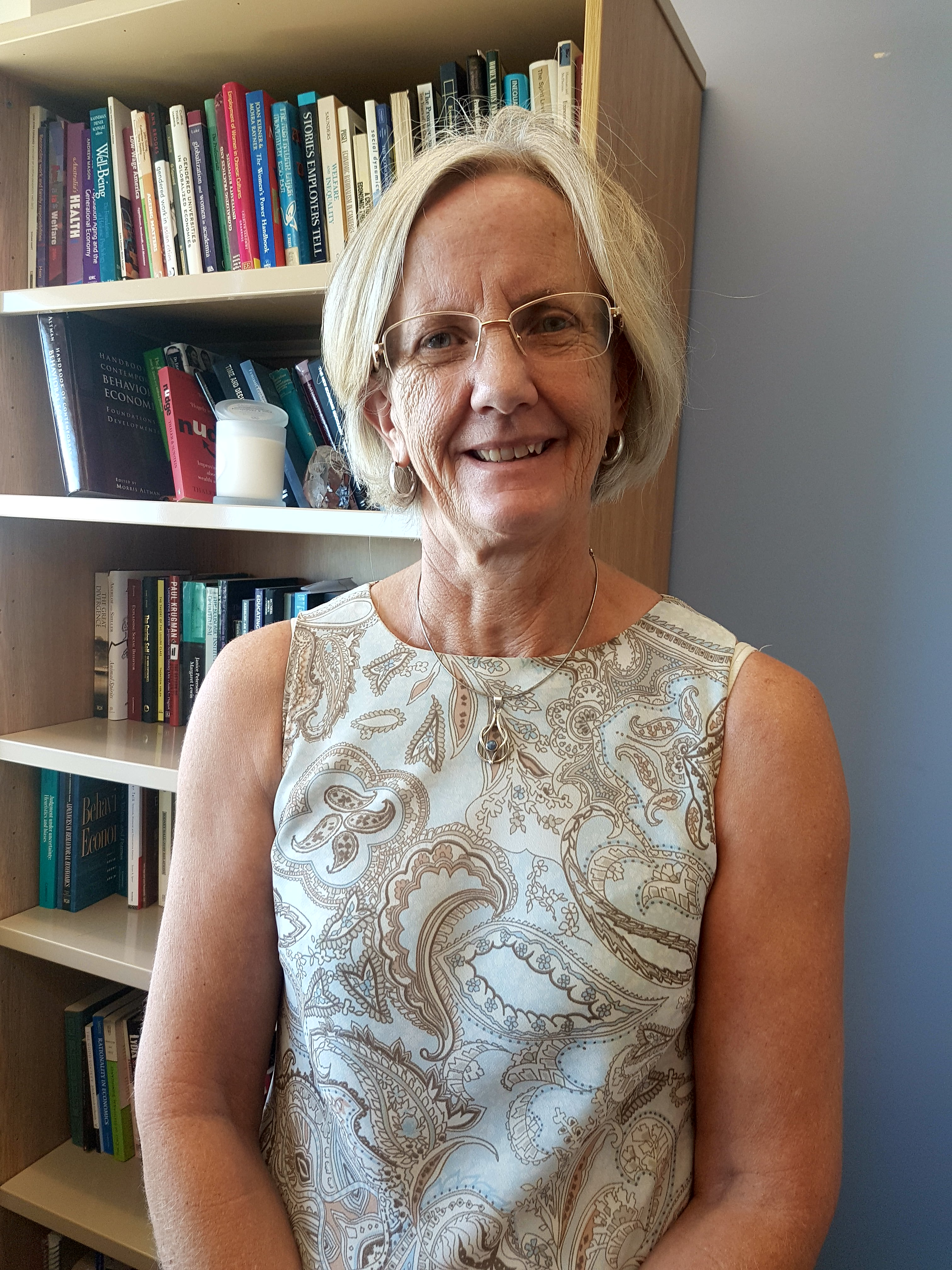 Photo of Siobhan Austen 2018